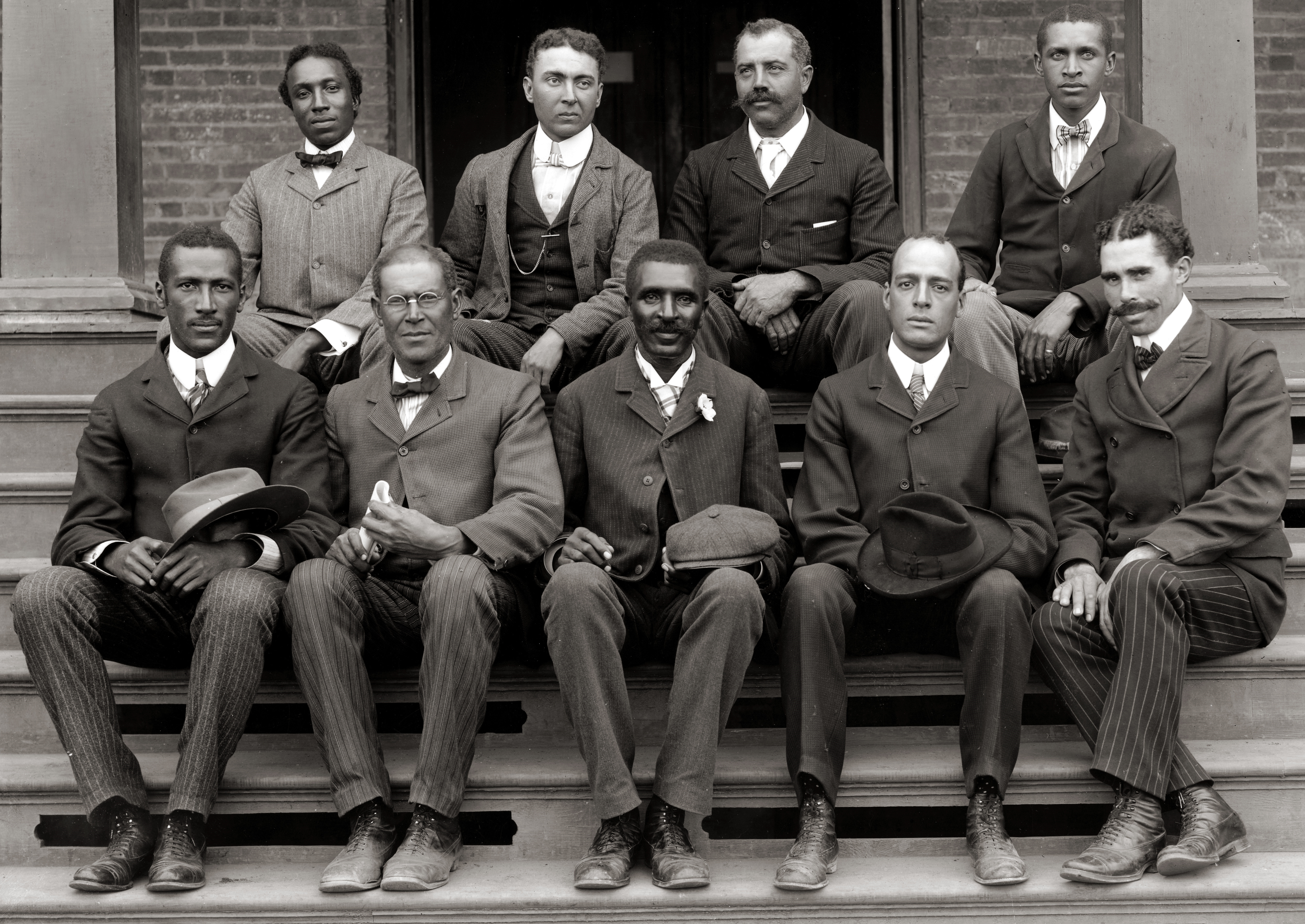 George Washington Carver (front row, center) poses with fellow staff members at the Tuskegee Institute (now known as Tuskegee University) located in the U.S. state of Alabama.